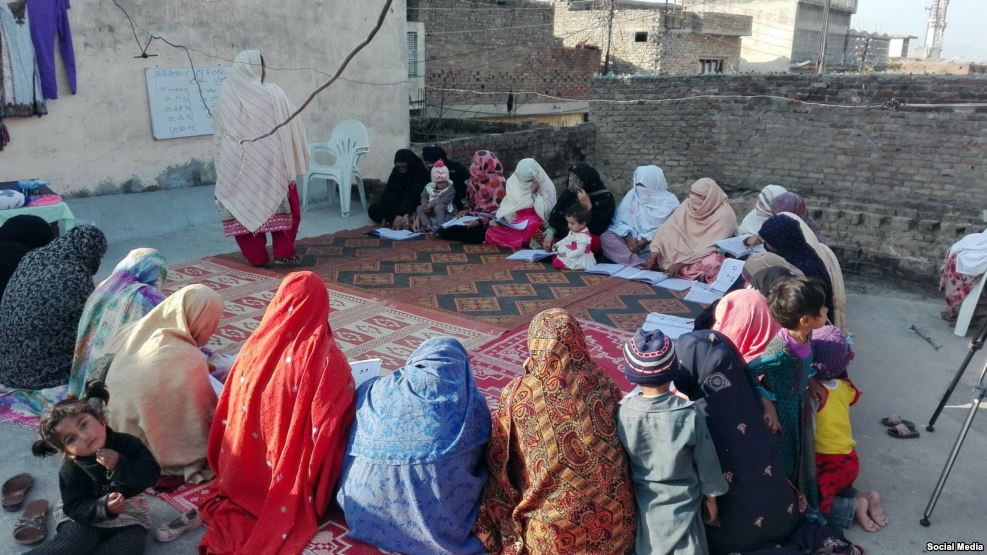 I-SAPS Adult Female Literacy Programme in KP